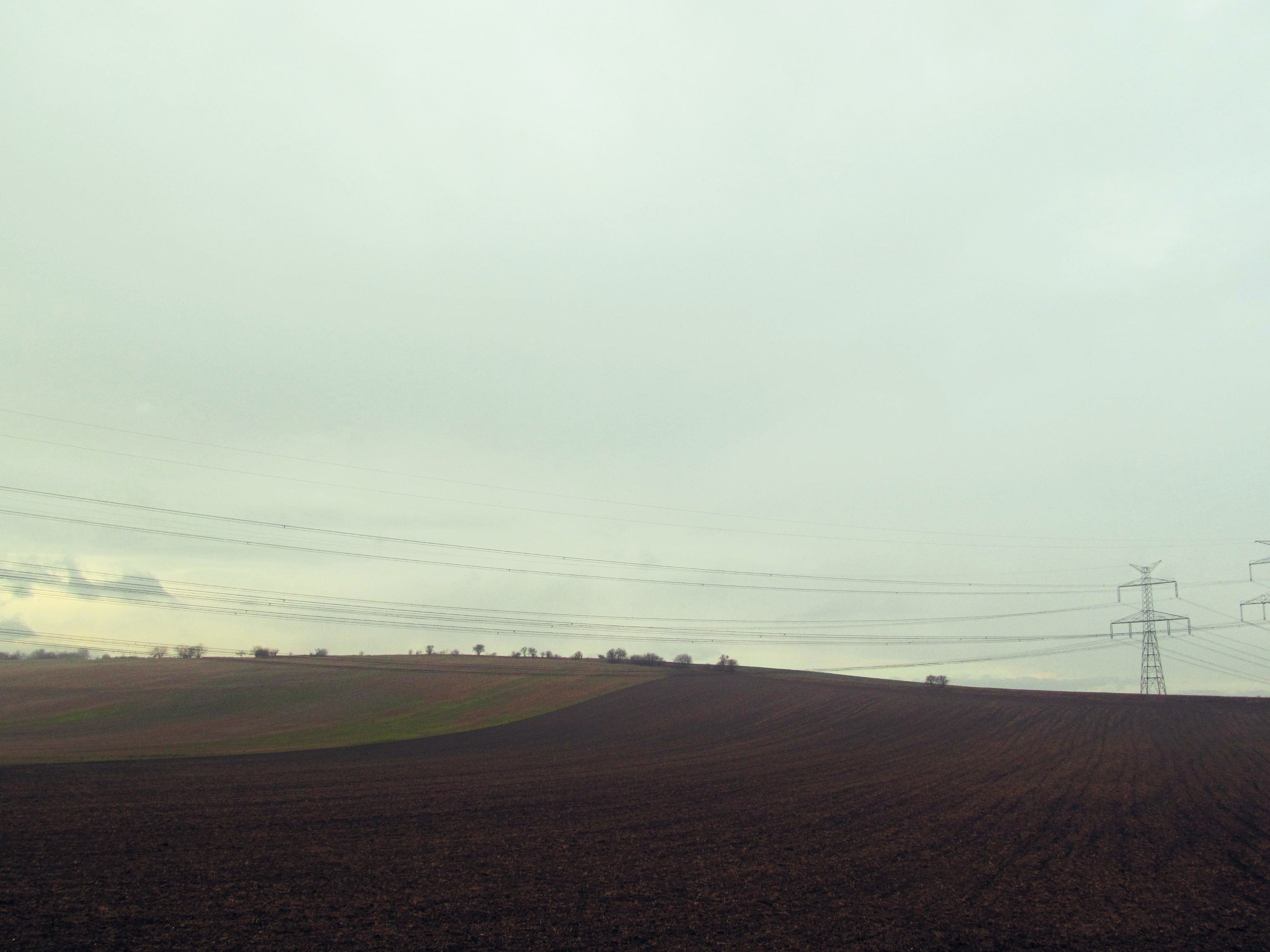 Hill Na Kamenici by Zeměchy